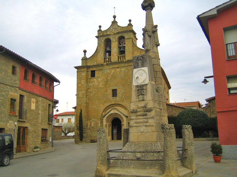 Church and monument to Jacint Verdaguer, Folgueroles, County Osona, Catalonia, Spain.